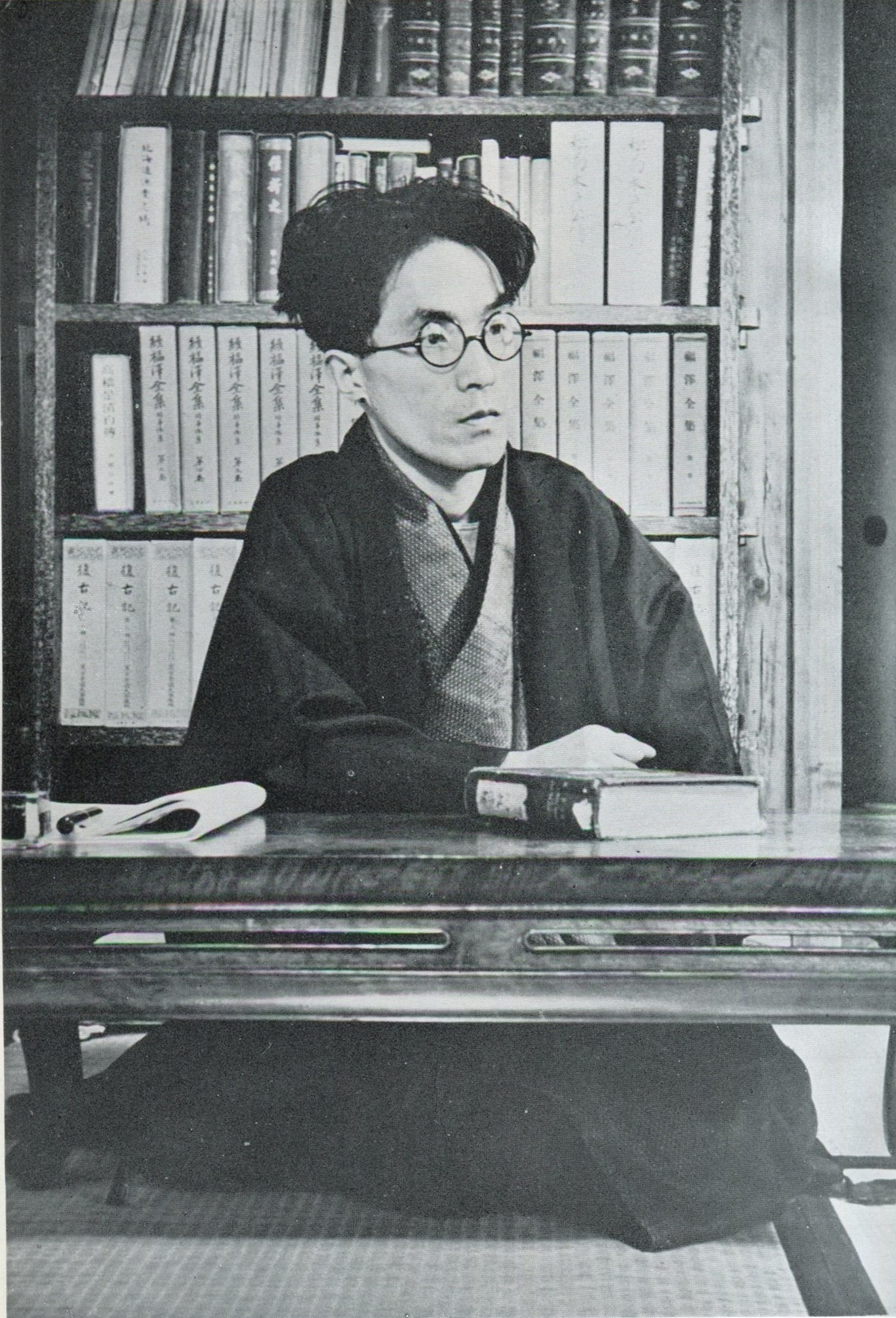 Kensaku Shimaki at his home, in Kamakura, Kanagawa Prefecture, Japan, 1940